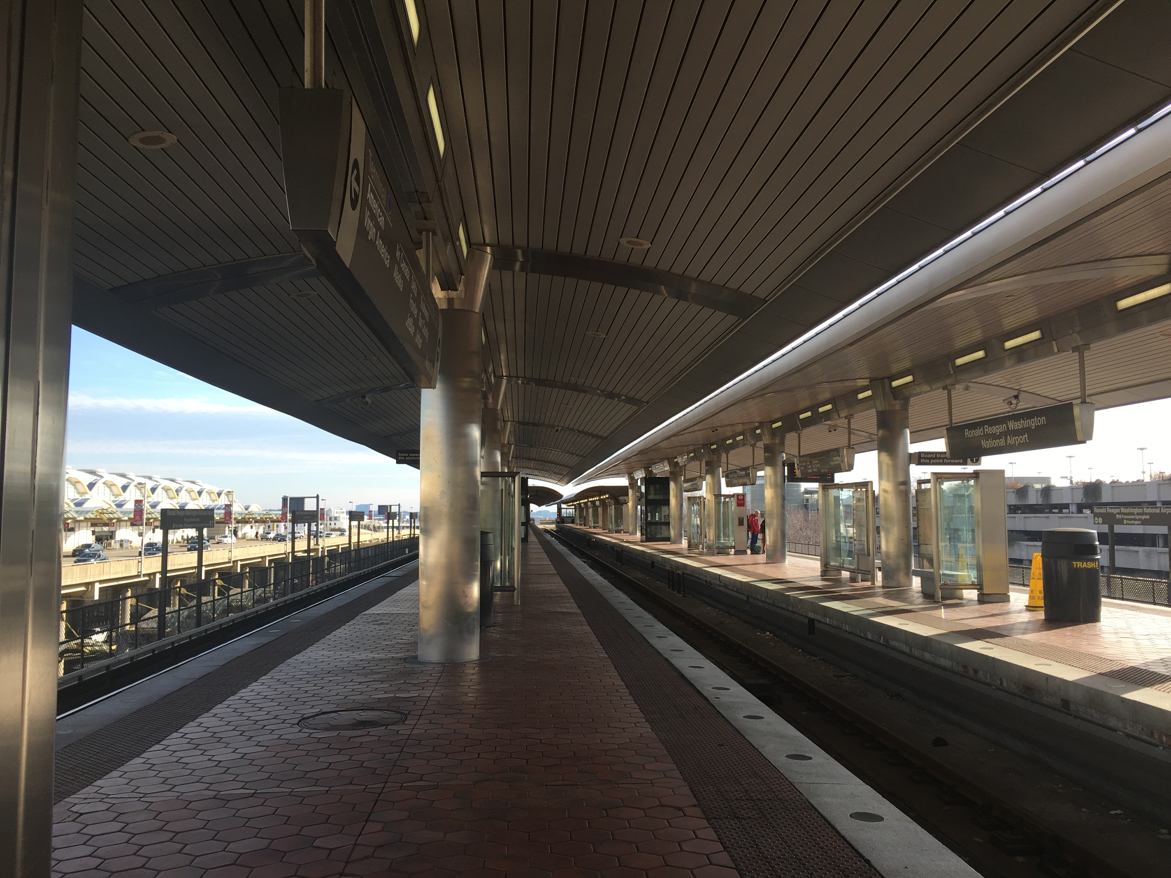 Standing on the Reagan National platform looking south